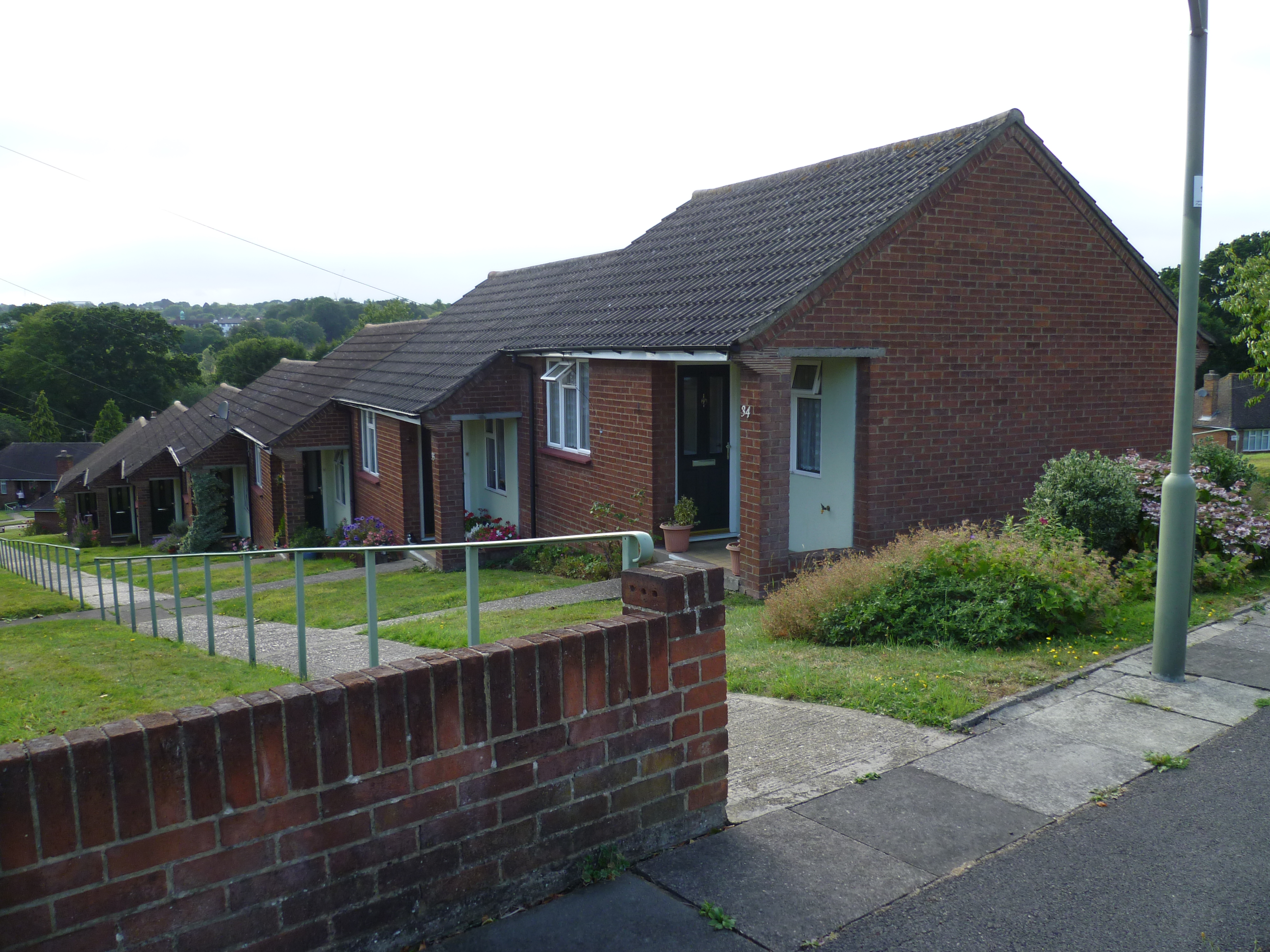 Lancelot Hasluck Trust houses